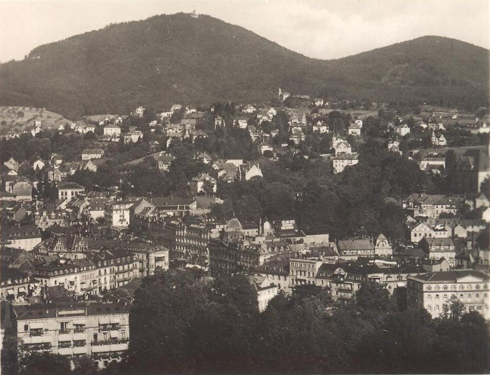 Baden-Baden, Germany